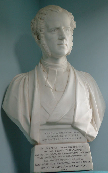 Photo by Op. Deo of 1861 bust of Joseph Lloyd Brereton in West Buckland School in 2003. By Edward Bowring Stephens (1815-1882)